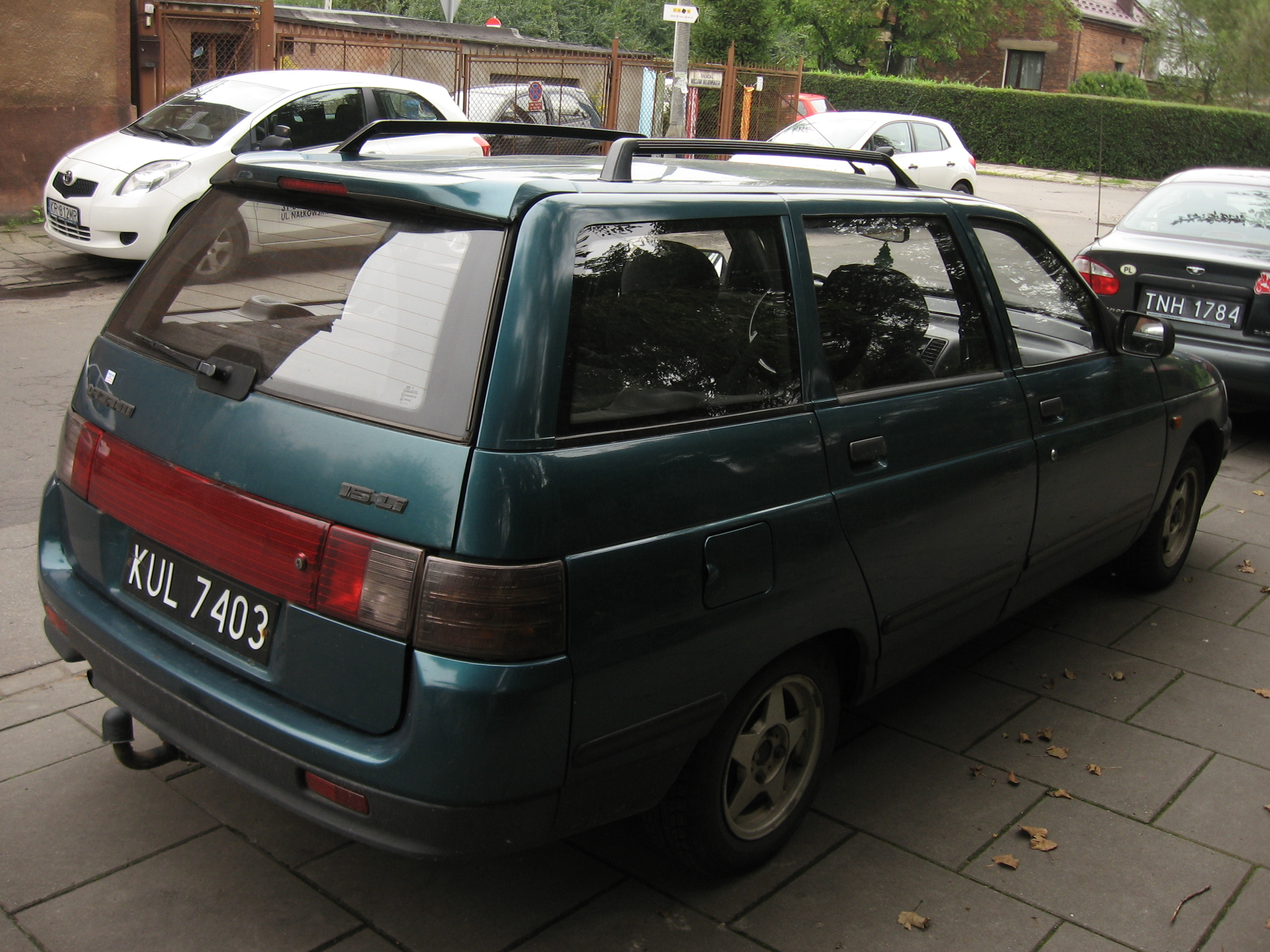 Green Lada 111 1,5 Li car in Kraków, Poland.